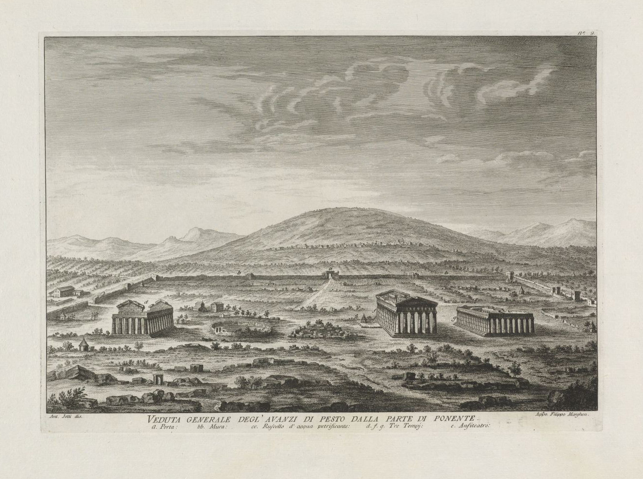 Image from Le antichita di Pozzuoli, Baja, e Cuma, by Filippo Morghen (1730- c.1807), published in Napoli, 1769. Typ 725.69.580, Houghton Library, Harvard University